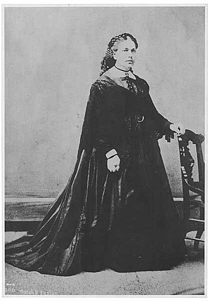 Caption on image: Sarah B. Yesler. 306 . Peiser 306 Subjects (LCTGM): Yesler, Sarah, 1822-1887; Portrait photographs